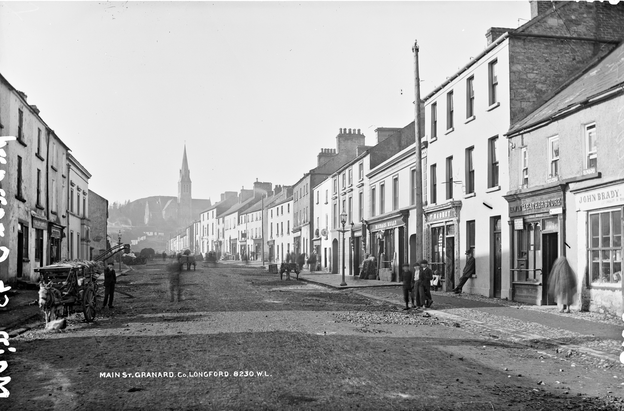 Main Street, Granard, Co. Longford in all its glory with lots going on. Overloaded donkeys, people moving at pace (in the centre of the road), boys gathering for their moment of fame and immortality - all human life is there! But where is the dog? Lots of input from various community contributors on the businesses pictured, with thanks especially to [/photos/gnmcauley/ Niall McAuley] and [/photos/47297387@N03/ Carol Maddock] for refining the ~50 year catalogue range to a ~5 year range! Photographer: Robert French Collection: Lawrence Photograph Collection Date: Catalogue range c.1865-1914. Though likely c.1901-1907 NLI Ref: L_CAB_08230 You can also view this image, and many thousands of others, on the NLI’s catalogue at